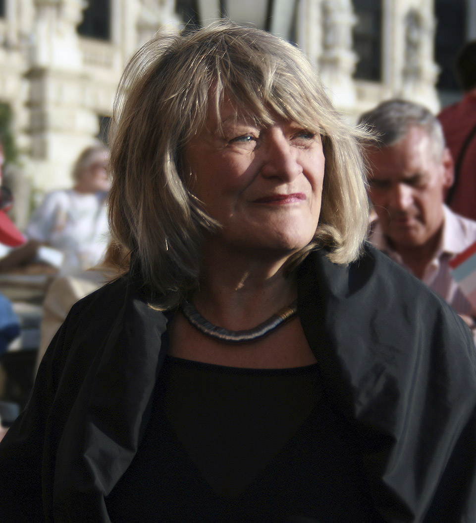 Alice Schwarzer at the Romy TV awards (Hofburg Imperial Palace in Vienna)